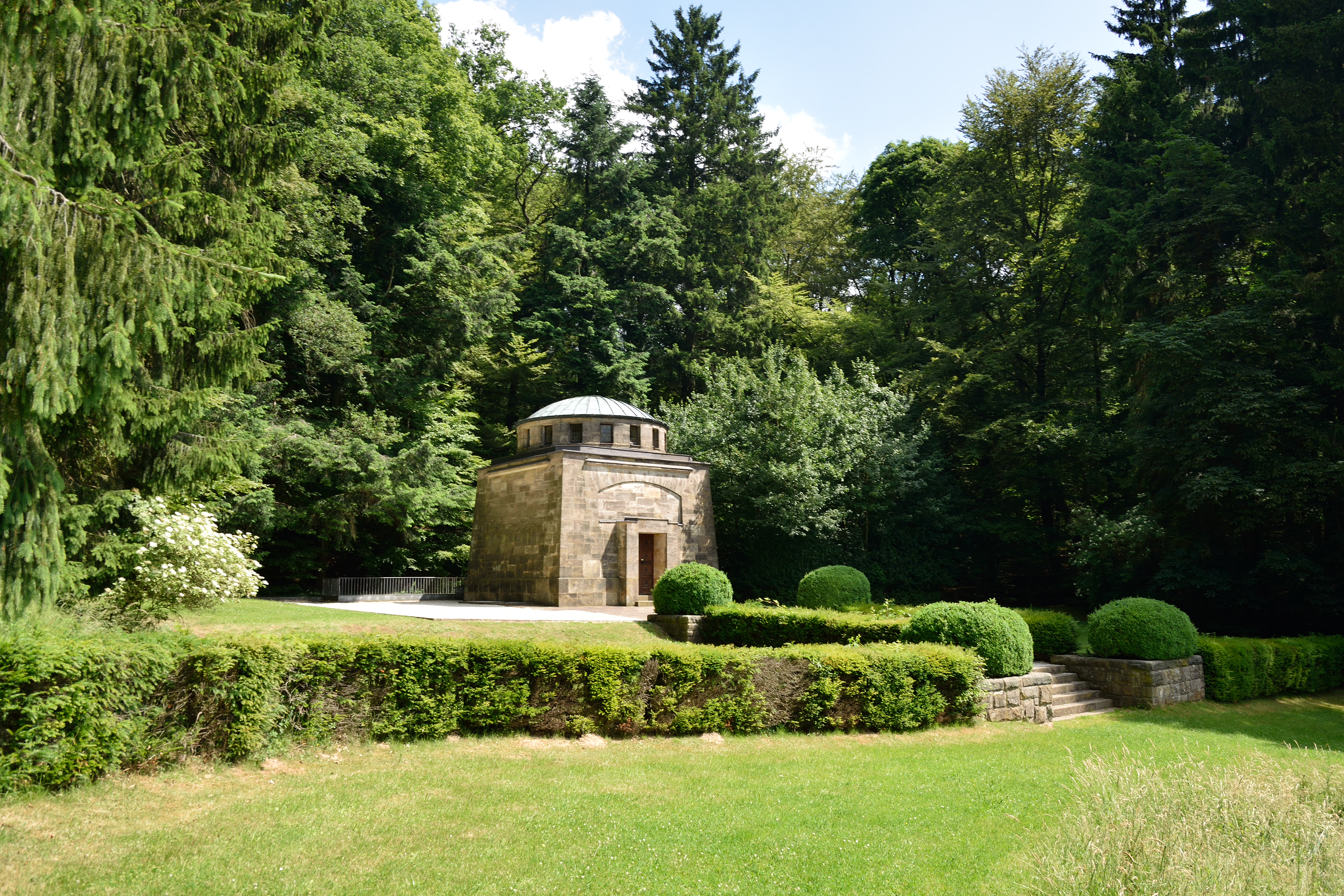 Behring mausoleum ("Mausoleum Elsenhöhe") in Marbach, Marburg